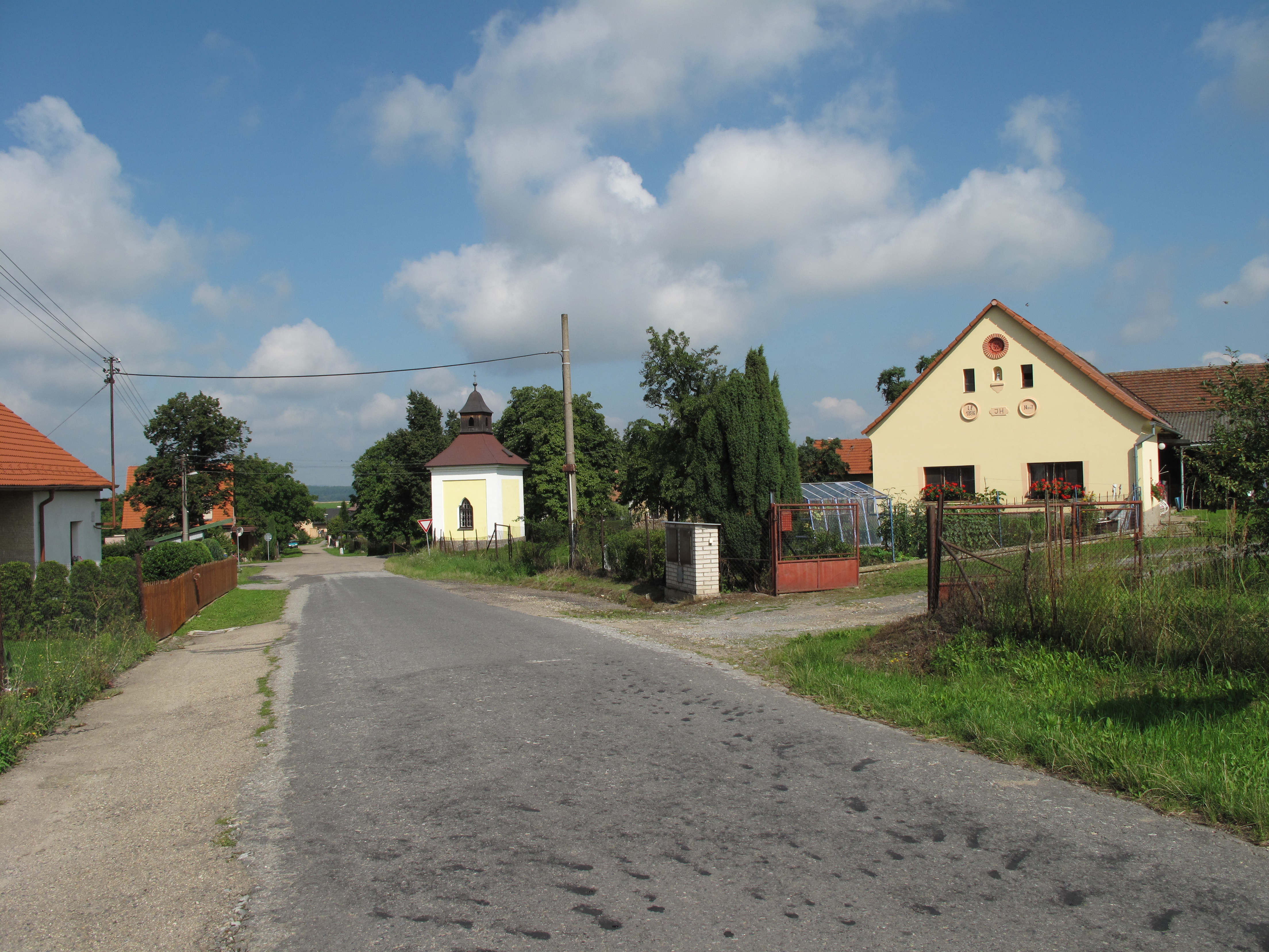 Roud from Boušice village in Dlouhé Pole village, Benešov District, Czech Republic.